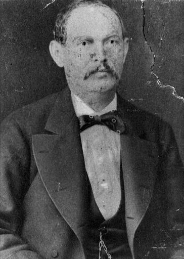 A photo of Henry Hale Bliss in 1873 in Paris.